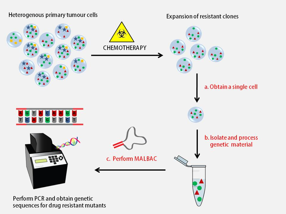 Solid tumours are often genetically heterogenous, and exposure of the tumour to chemotherapeutic agents may select for the outgrowth of resistant clones. MALBAC may be used as an unbiased approach to amplify DNA from a single drug resistant clone. After the creation of looped amplicons using five cycles of MALBAC, PCR may be applied to amplify tumour DNA exponentially. This then allows for the DNA sequence of a single drug resistant clone to be analyzed.